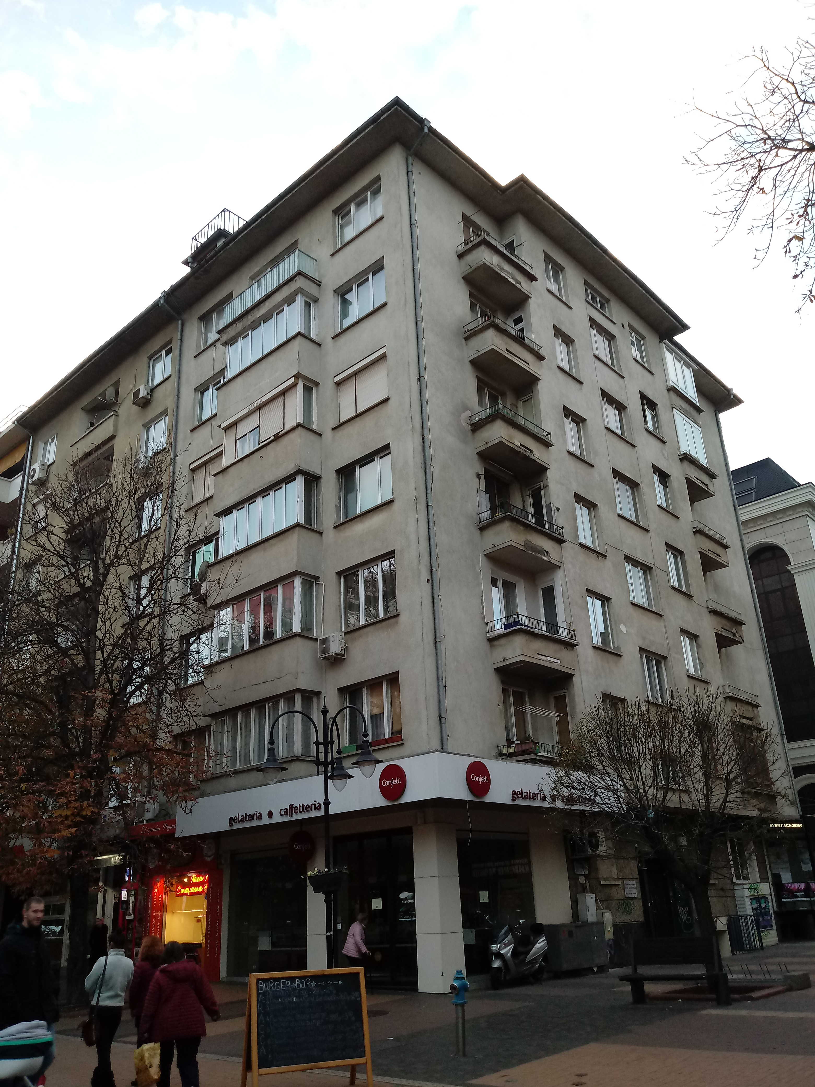 Stoyan Mihaylovski home with memorial plaque, 38 Parchevich Str., Sofia